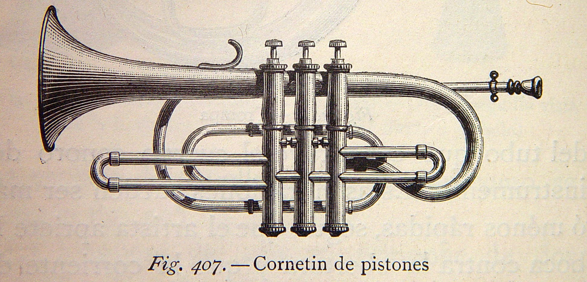 Piston cornet. Ilustraciones pertenecientes al libro : El mundo físico : gravedad, gravitación, luz, calor, electricidad, magnetismo, etc. / A. Guillemin. - Barcelona Montaner y Simón, 1882